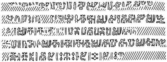 Barthel's tracing of rongorongo tablet N, side a